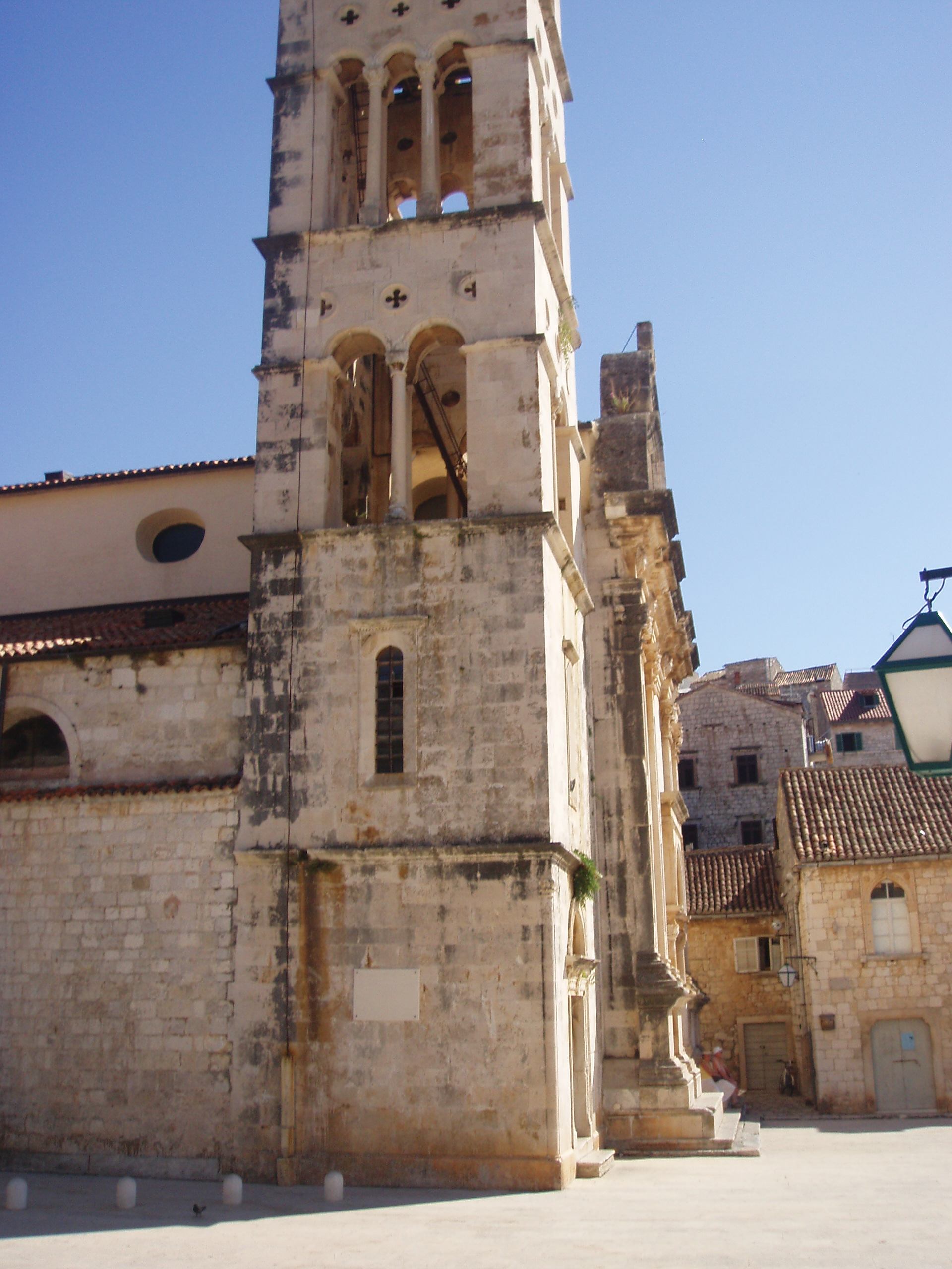 The Cathedral of St. Stephen in Hvar